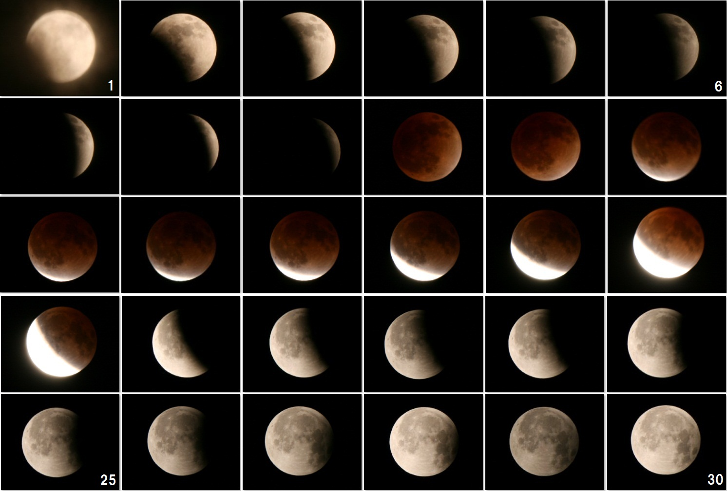 December 2011 lunar eclipse, in Japan.